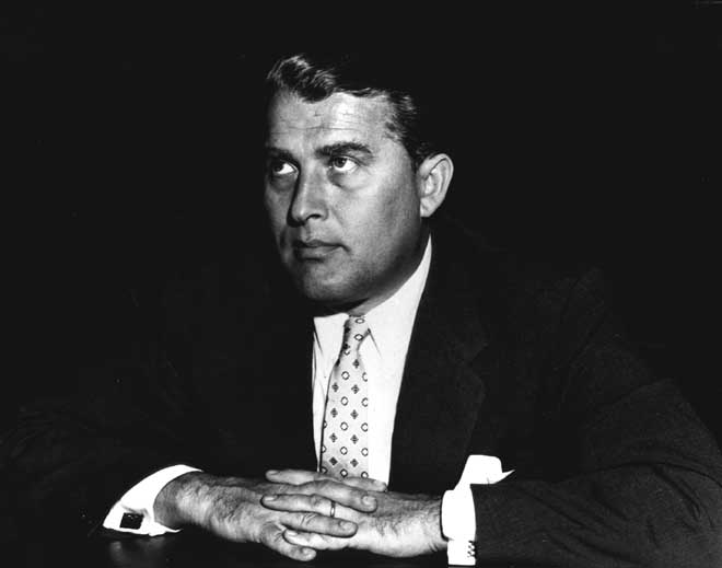 Secretary of Defense Charles E. Wilson presented the Civilian Service Award, DOD's highest civilian honor, to Dr. Wernher von Braun, Chief of the ABMA Development Operations Division, for his work in the Army missile program.